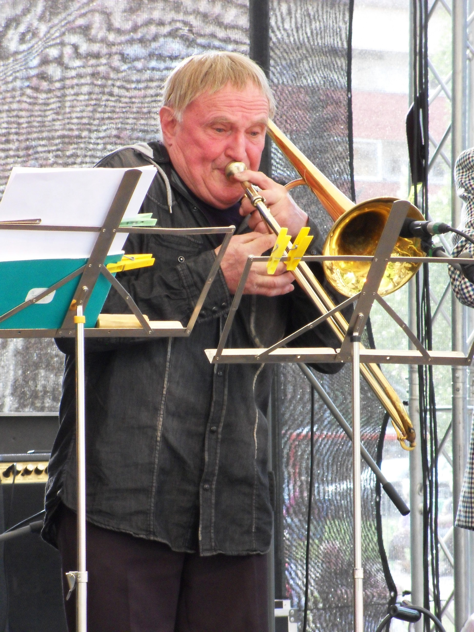 Czech trombonist Mojmír Bártek, Brno, Czech Republic